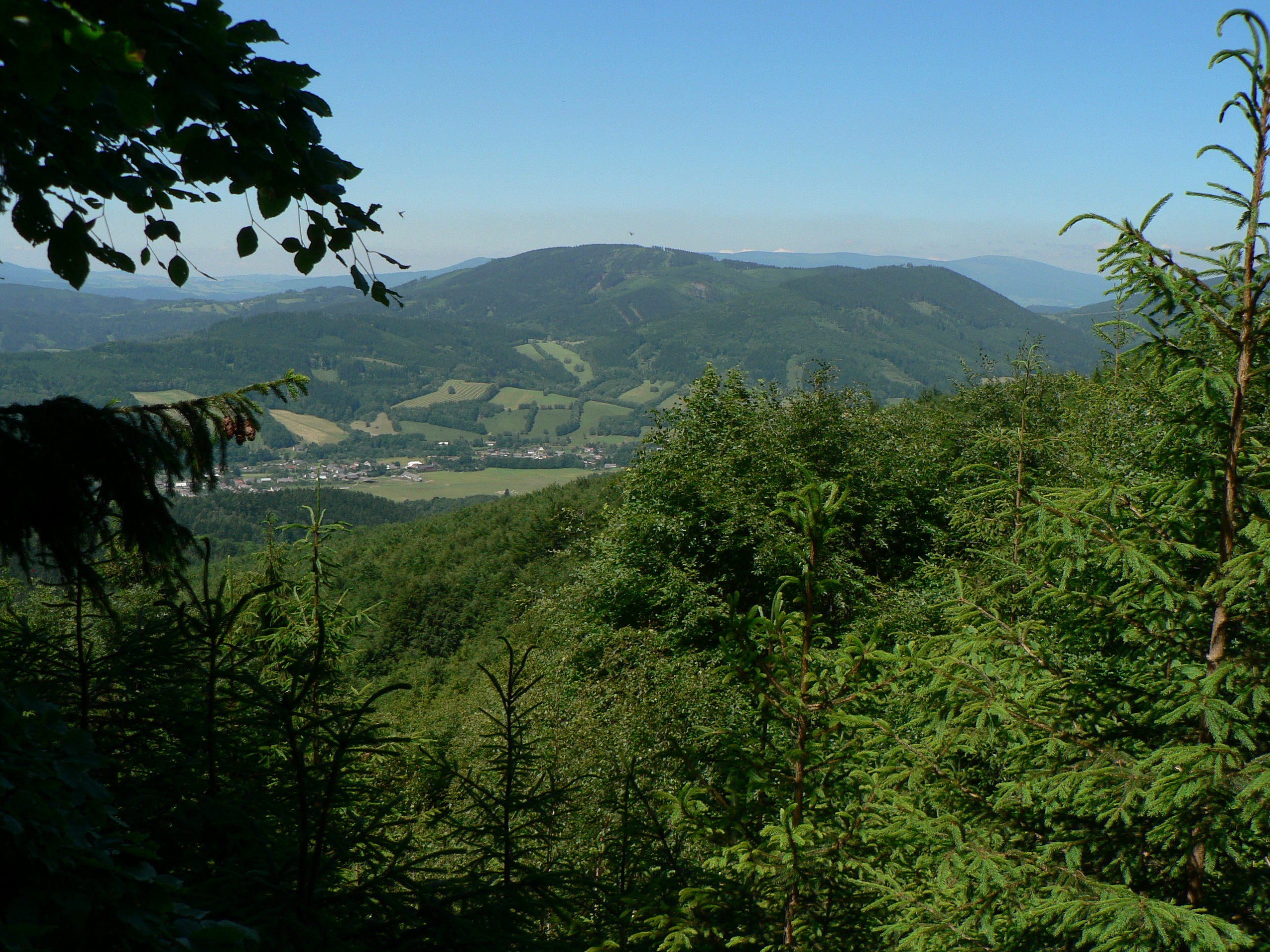 Uchac mountain, Hruby Jesenik Mts, Czech republic.